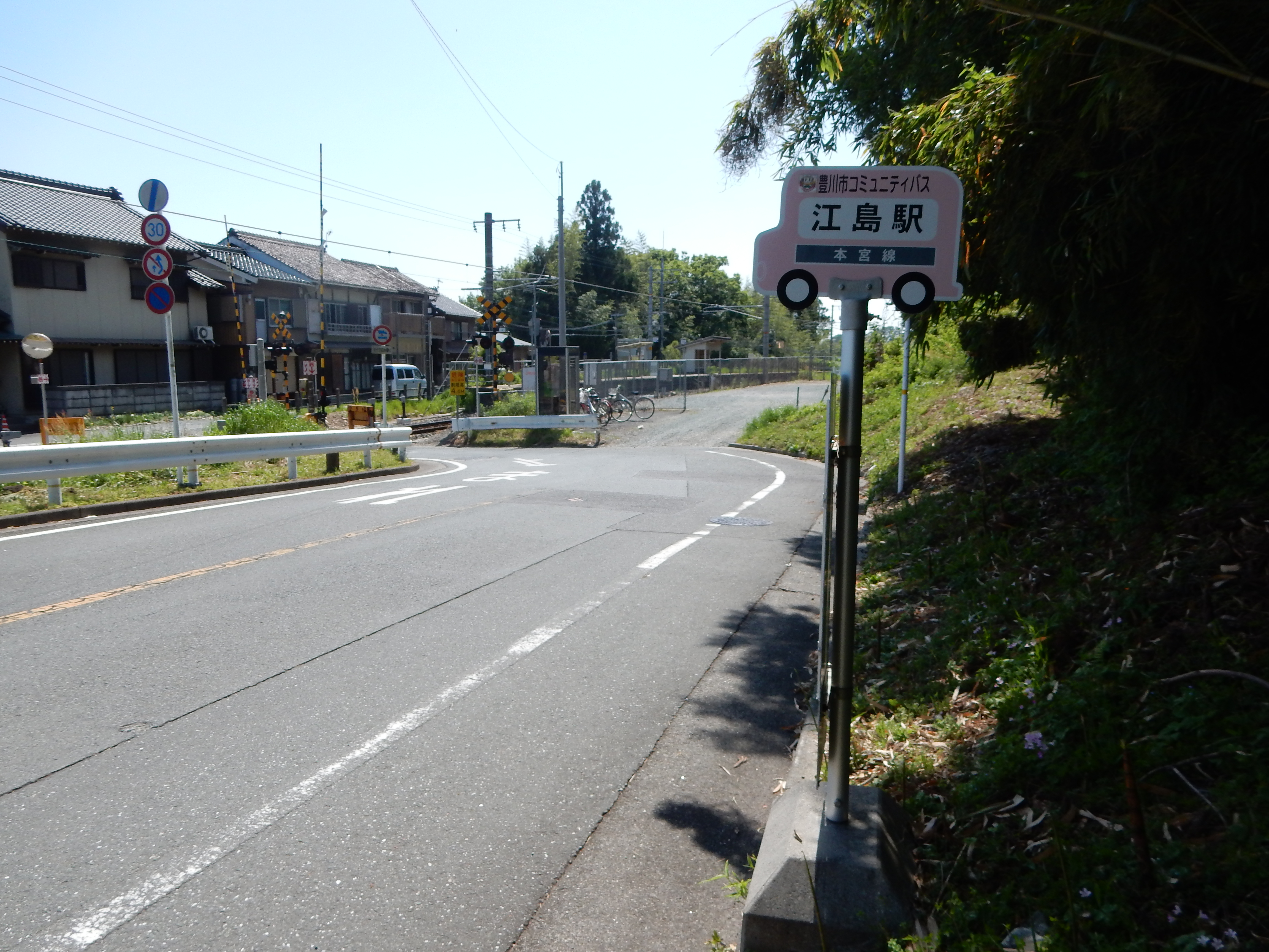 Ejima_Station, located at 58 Maruzuka, Tojo, Toyokawa, Aichi, Japan